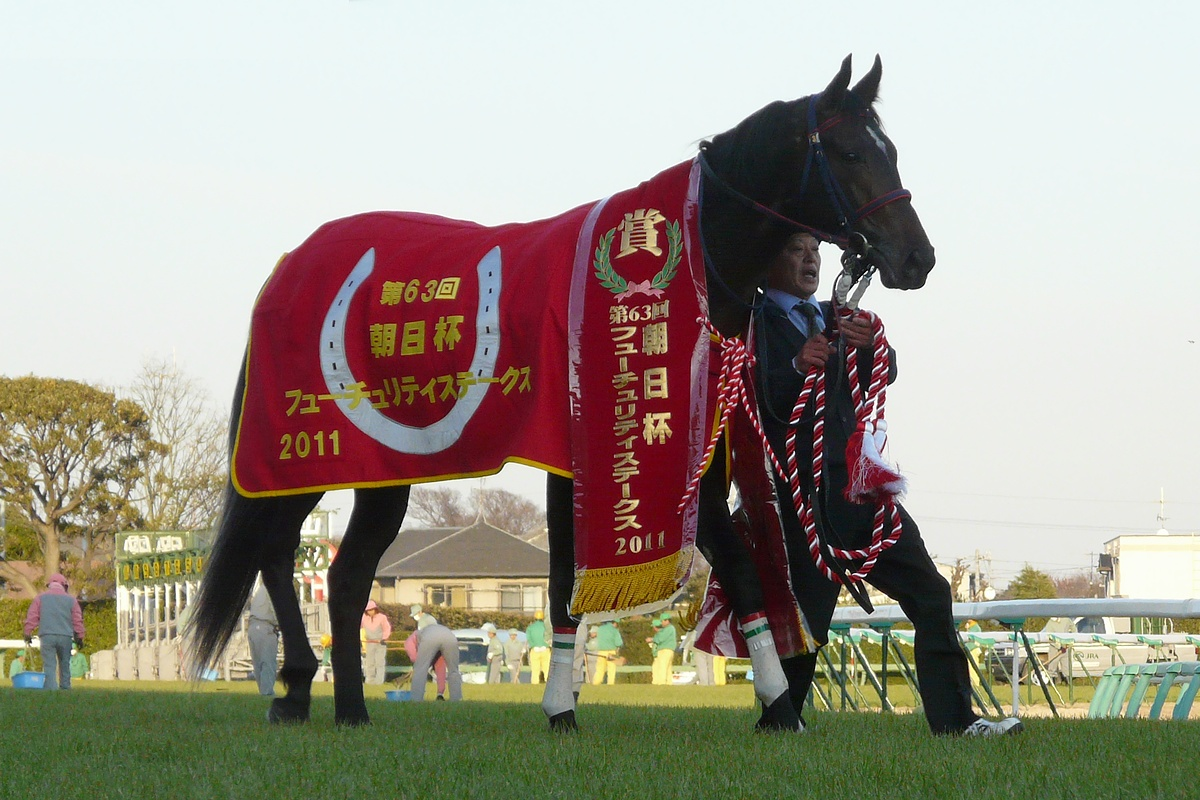 Alfredo(horse)20111218(2)